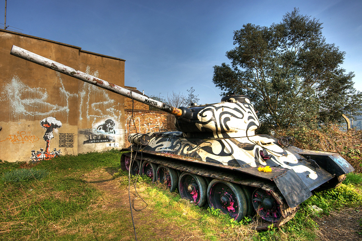 The WWII Soviet T-34 tank located at Mandela Way near Bermondsey and Old Kent Road, London